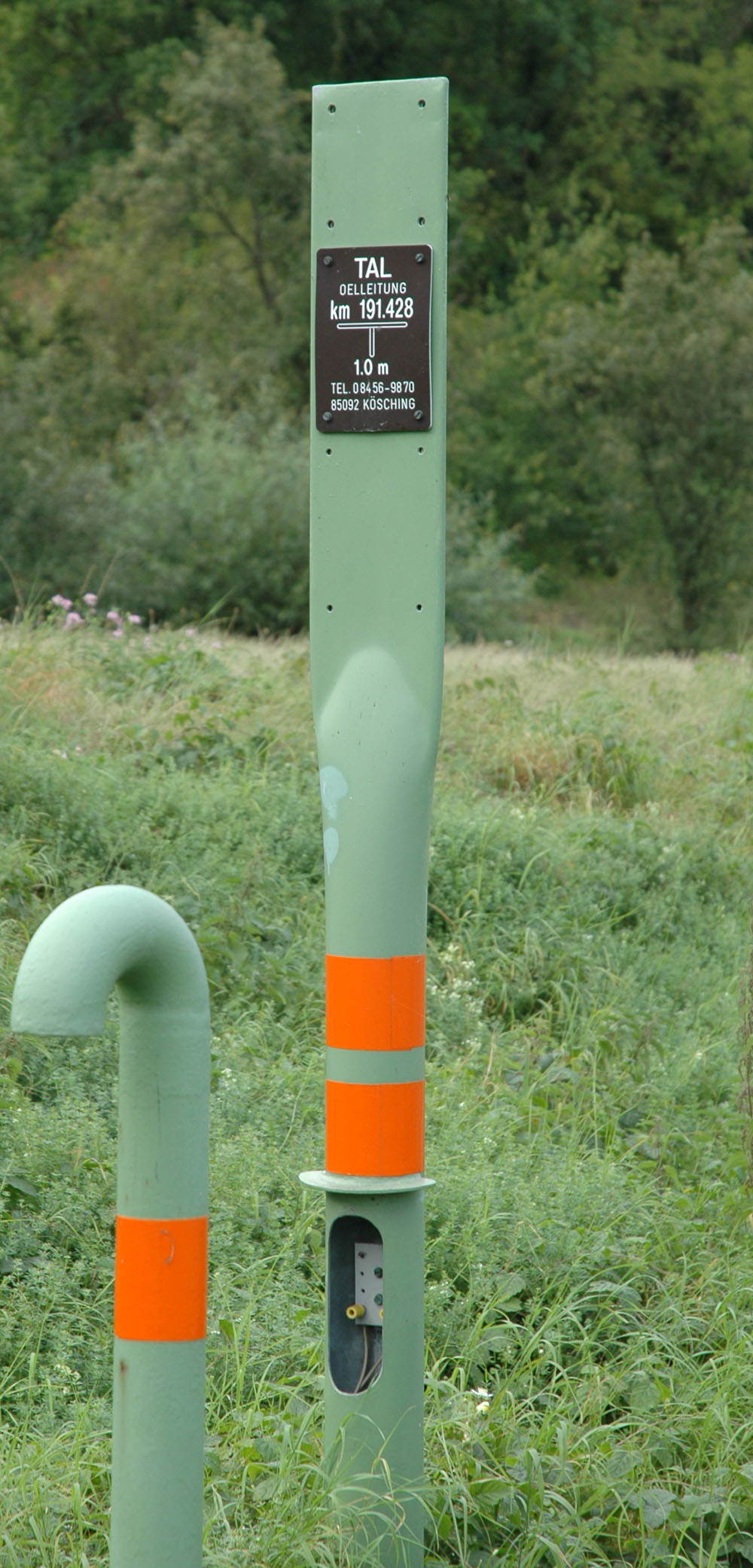 mark of the TAL pipeline between Bietigheim-Bissingen and Kirchheim am Neckar.